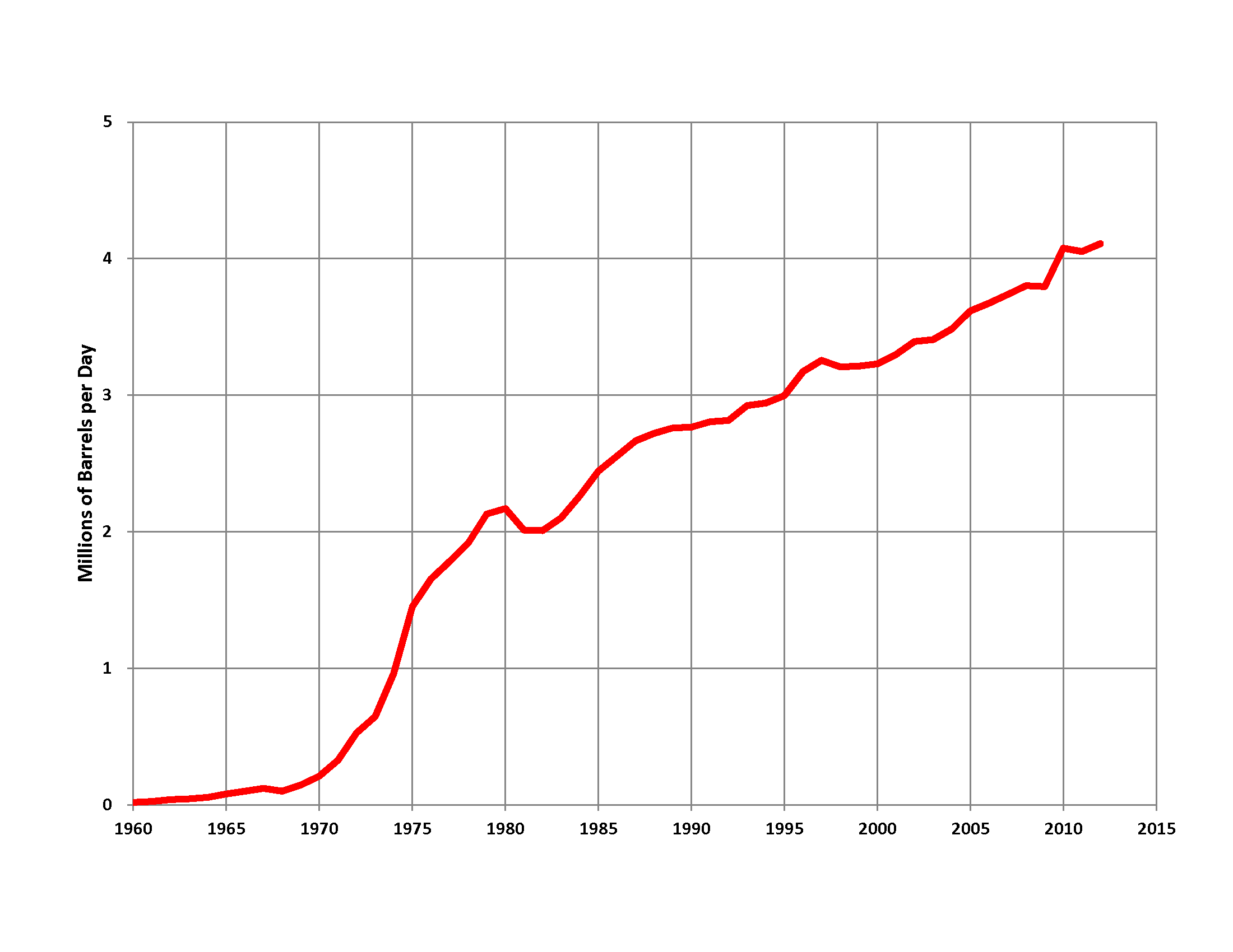 China crude oil production